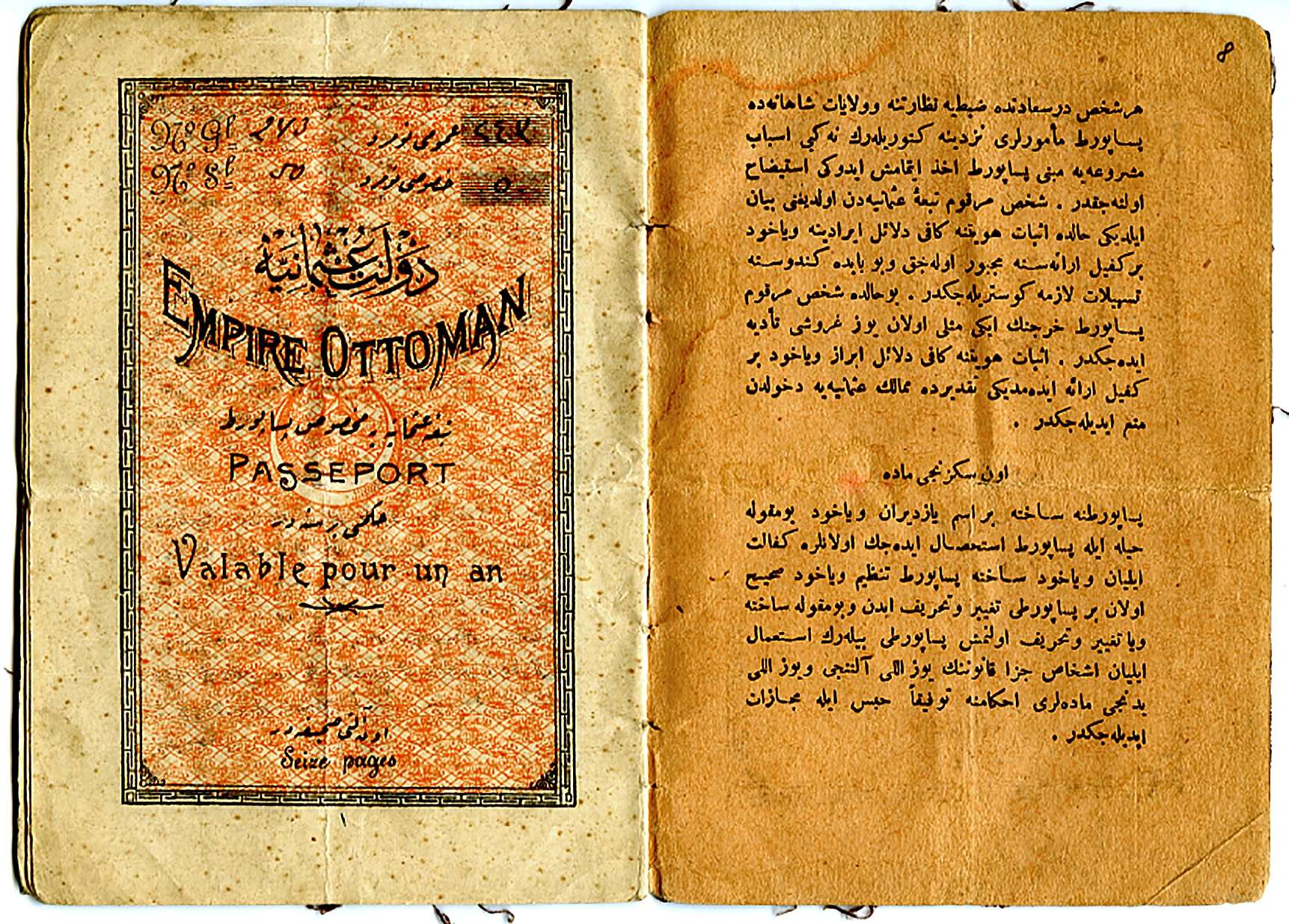 An example of a passport issued by the Turkish authorities on April 24, 1912. This media file is produced by Wikipedian in Residence in Category:Wikipedian in Residence at DARM in 2016.